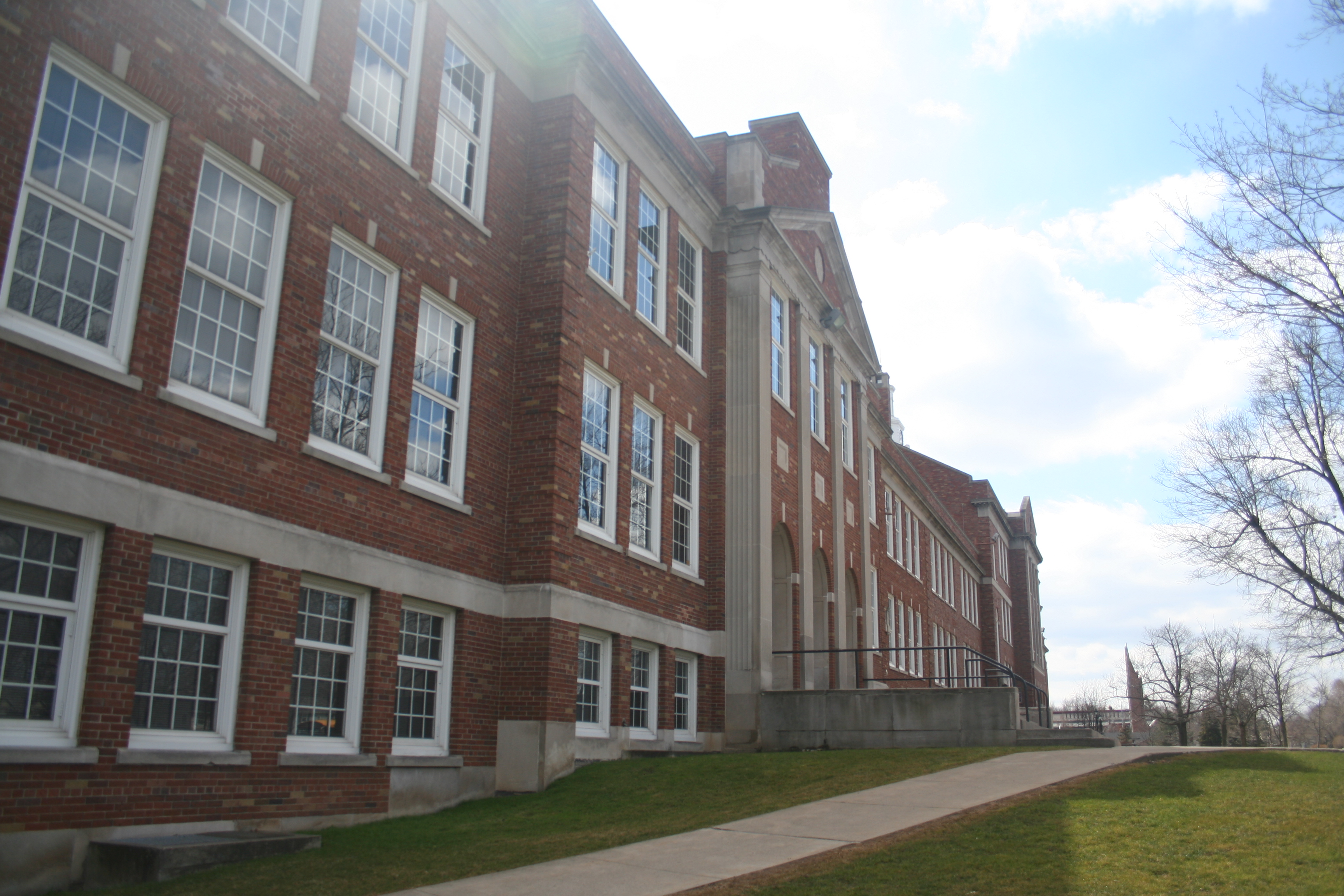 A picture of Brighton High School, from Brighton, Monroe County, New York